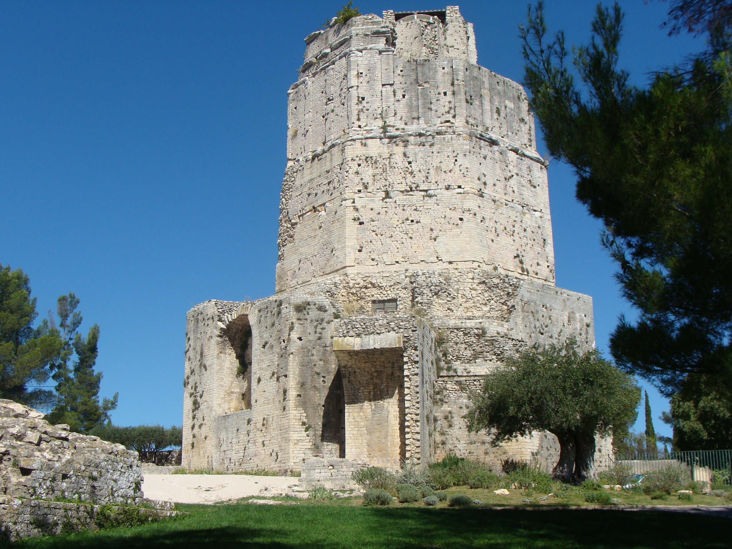 Tour Magne - Nîmes, France